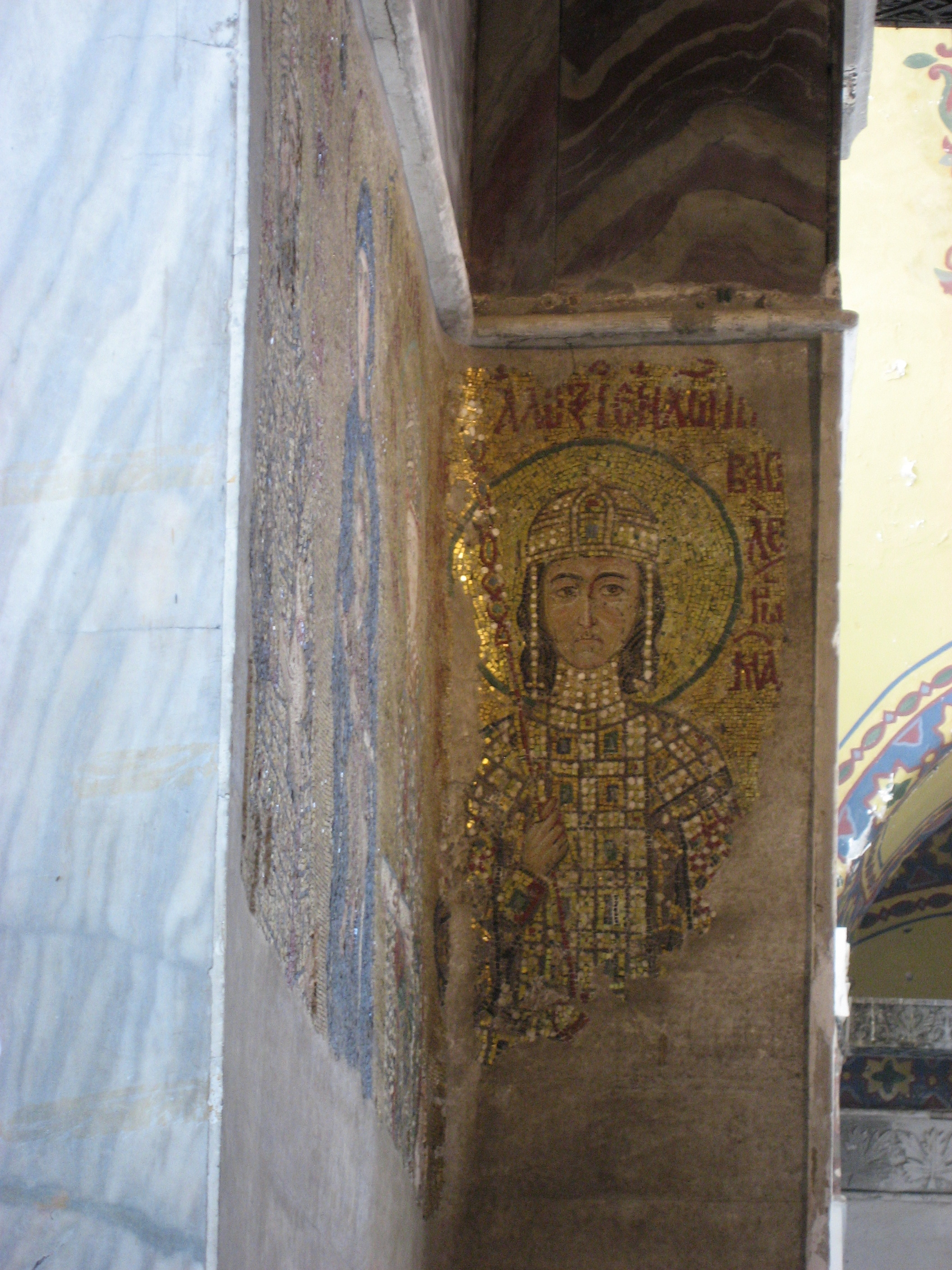 Mosaic of the Komnenos at the Hagia Sophia in Istanbul.